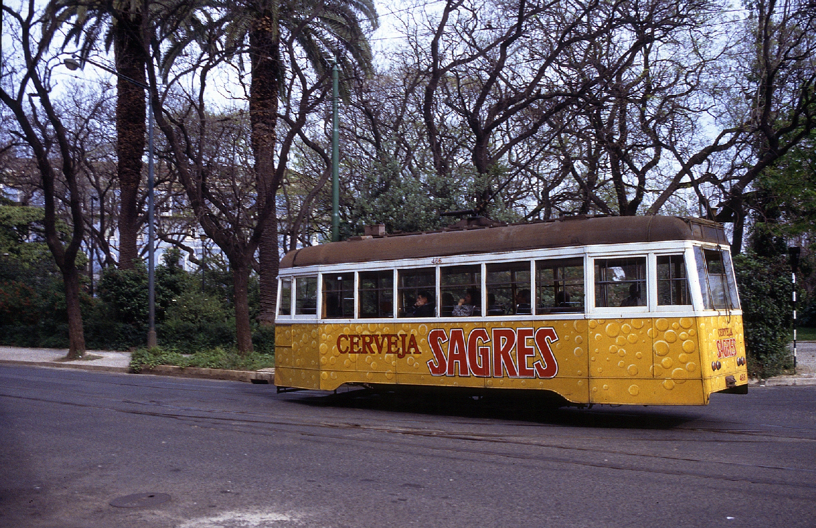 Lisbon tramcar 466, one of 35 cars of its type, built by Carris between 1952 and 1963 using the trucks and electrical equipment of withdrawn trams